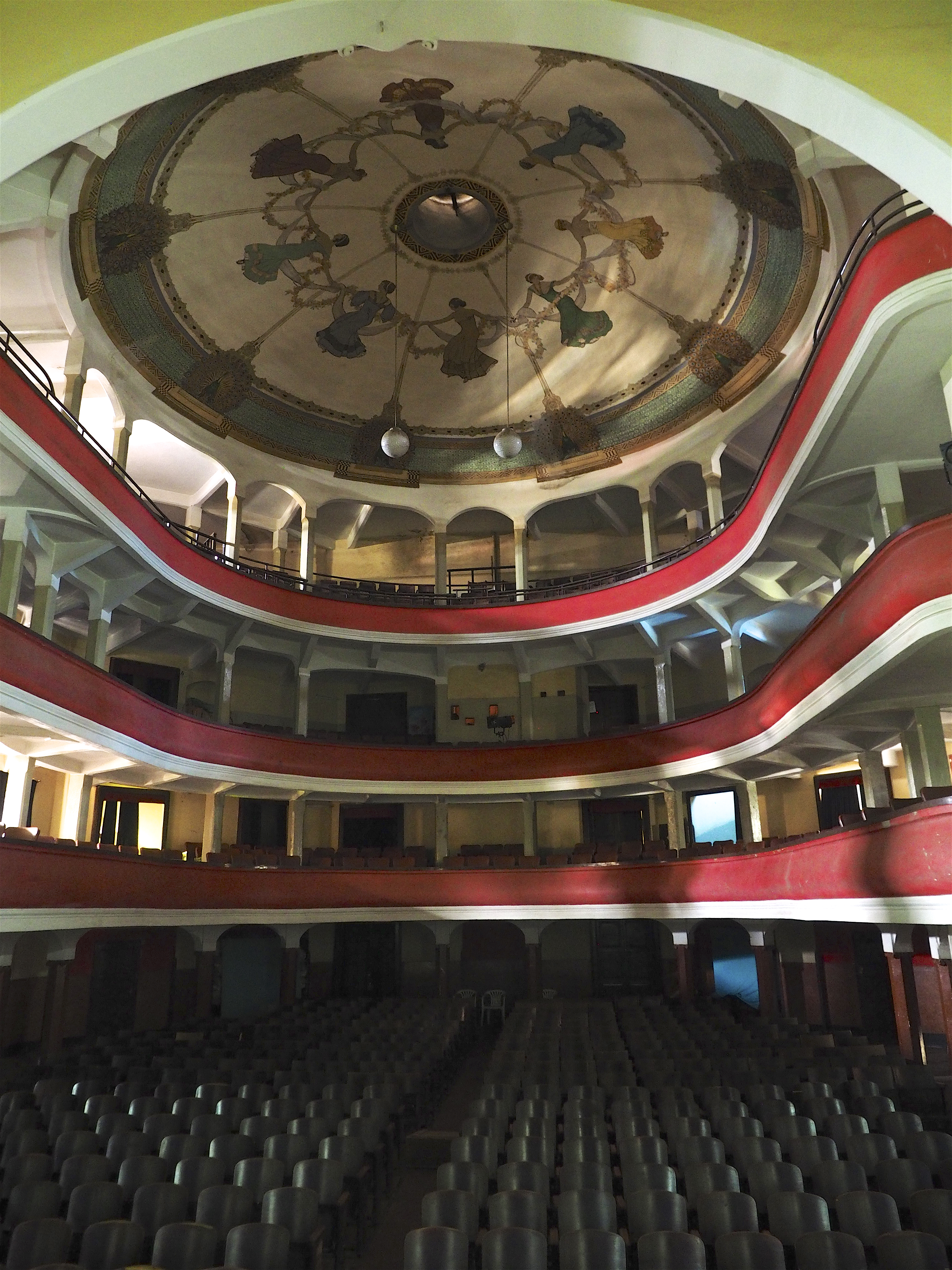 Asmara Theater